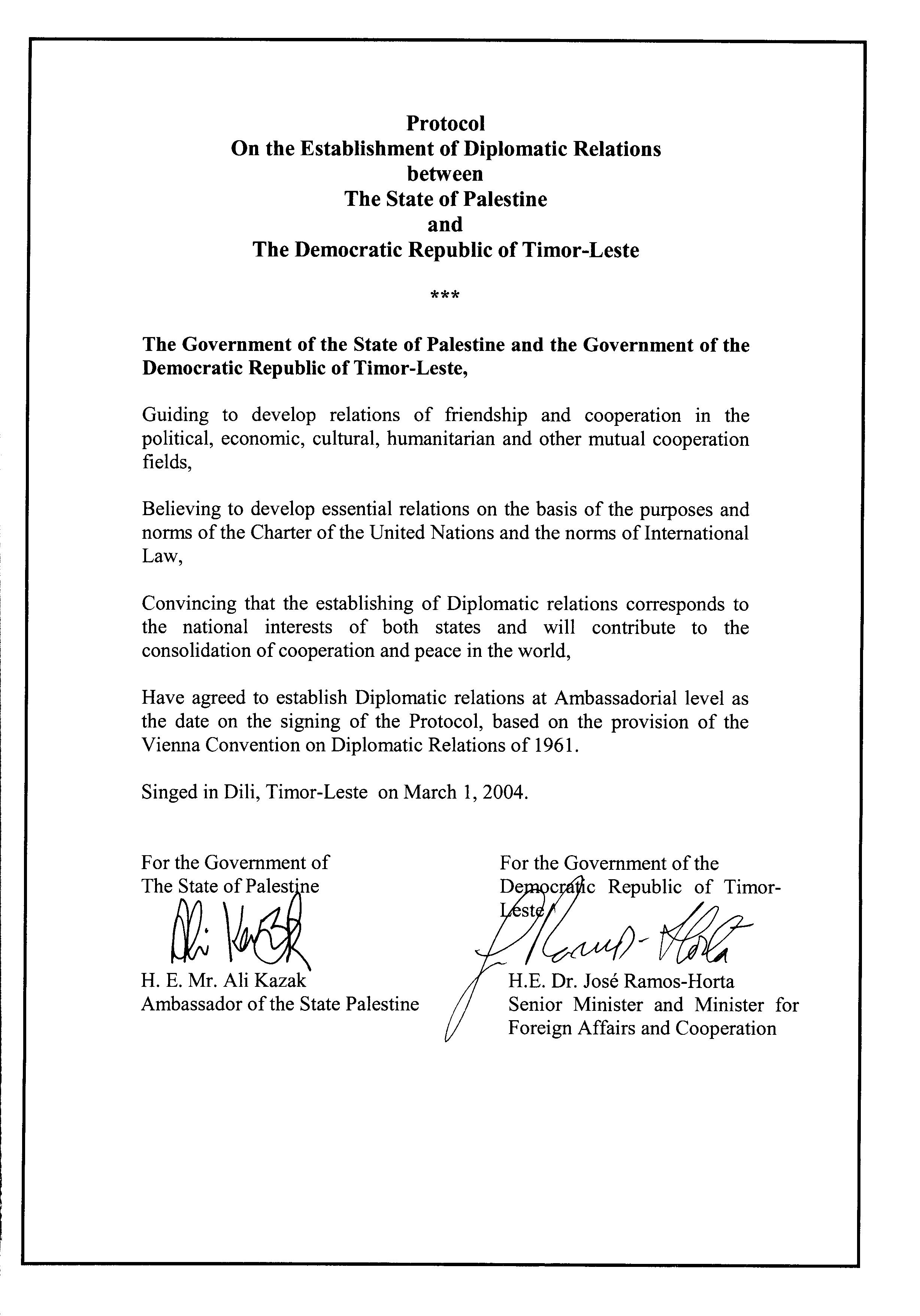 East Timor, Protocol of Diplomatic Relations